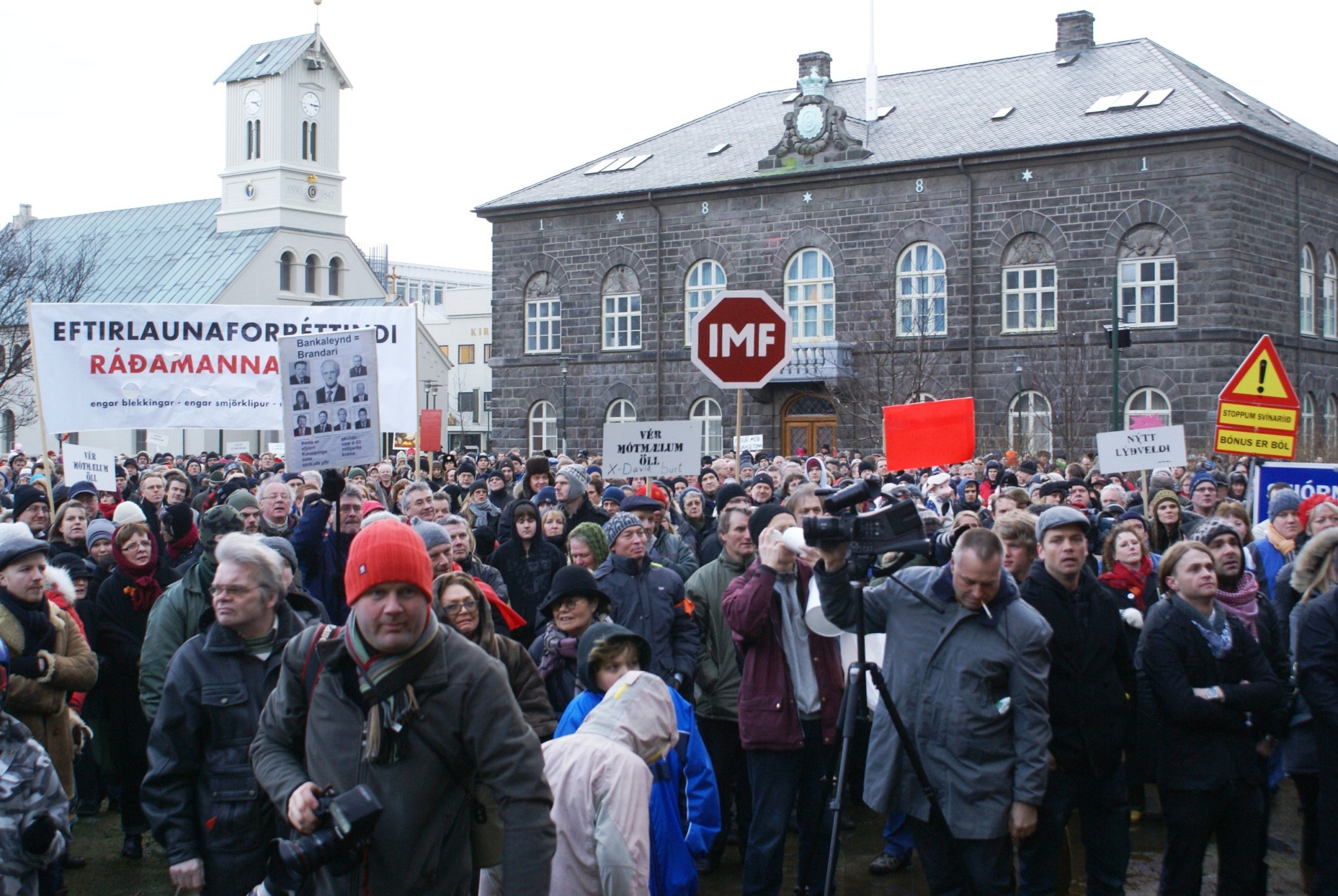 Week 16: 2009-01-16. Protesters at Austurvöllur. The Kitchenware-Revolution in Iceland was organize by Hördur Torfason and "Raddir Fólksins". It started in the wake of the collapse of the banking system followed be the decimation of Icelandic economy in the beginning of October 2008. It resulted in the resignation of Geir H. Haarde and his cabinet on January 26. 2009. The protest meetings were held every Saturday at the Austurvöllur square in front of Alþingishús - the Icelandic parliament house. The first meeting (week 1) was dated Saturday 11. October 2008. The 16th meeting dated January 24. 2009